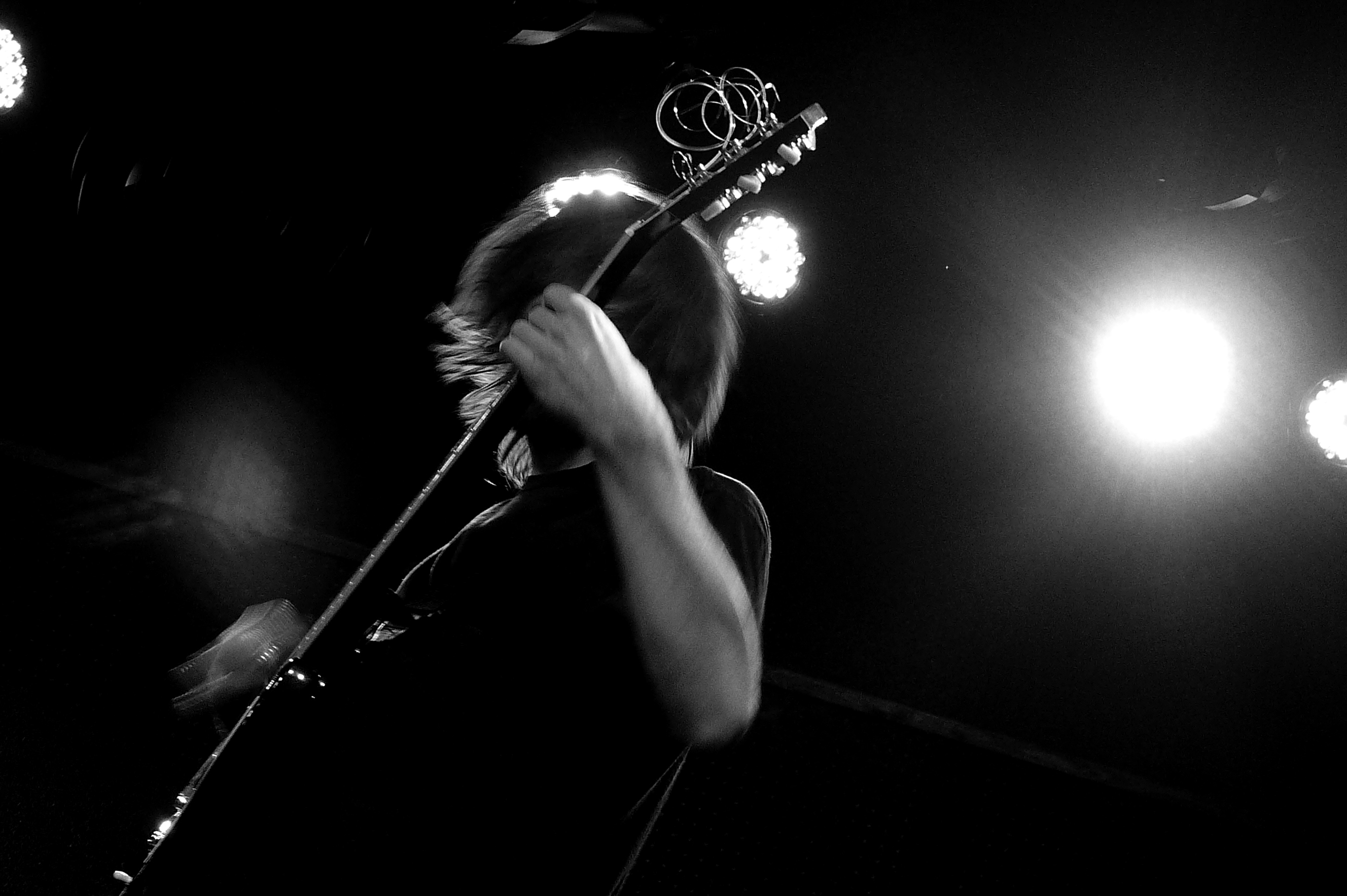 A photo of Mick Barr performing live with the American black metal band Krallice. Photo by watashiwani.